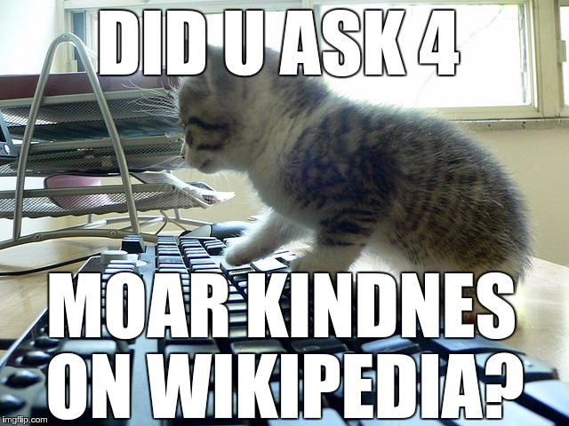 "Did you ask for more kindness on Wikipedia?" in Lolcat language.